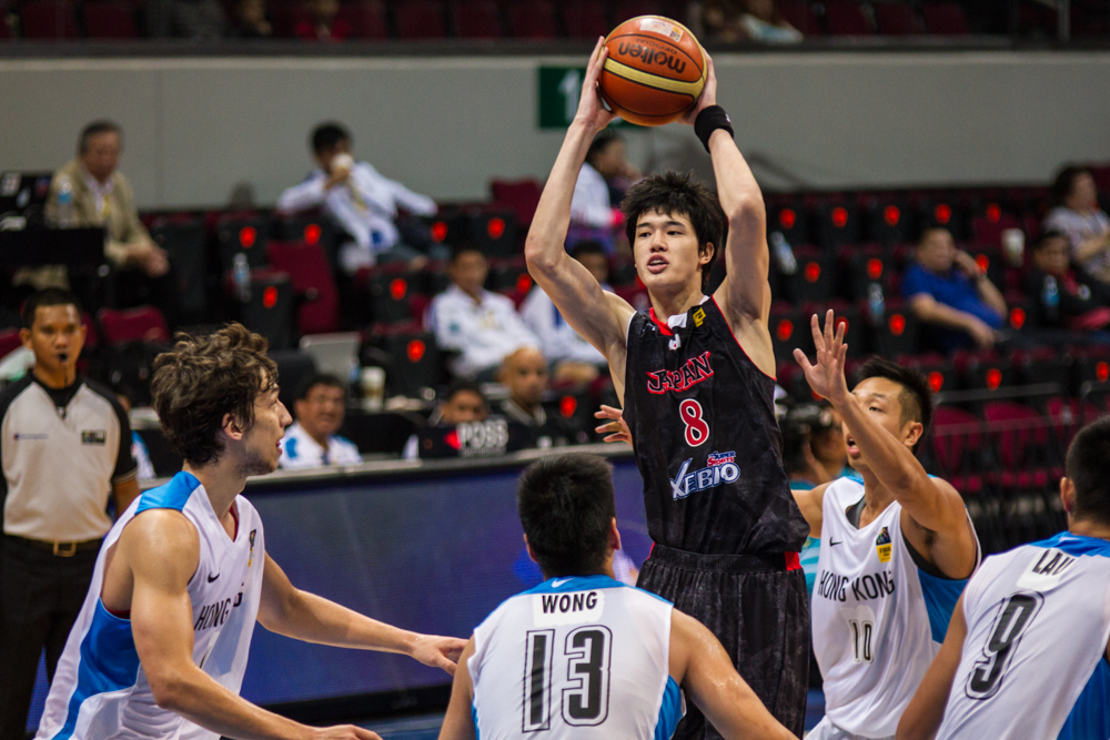 Japan F Watanabe Yuta looks to pass against four Hong kong defenders